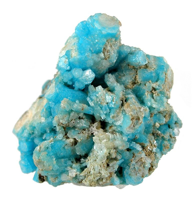 Leadhillite Locality: Mammoth-Saint Anthony Mine (Mammoth-St Anthony Mine; Mammoth Mine; St. Anthony Mine), St. Anthony deposit, Tiger, Mammoth District, Pinal County, Arizona, USA (Locality at ) Size: 3.2 x 3.1 x 2.1 cm. Leadhillite is normally found in secondary deposits in arid areas. This uncommon lead, sulfate, carbonate, hydroxide occurs here as lovely sky blue, translucent crystals to .7 cm in length. Essentially closed by WW2, this venerable old mine has, nevertheless, produced a plethora of fine secondary copper and lead minerals. Among the most desirable is a rich and aesthetic leadhillite such as this and Tiger pieces are considered among the more beautiful examples of the species.